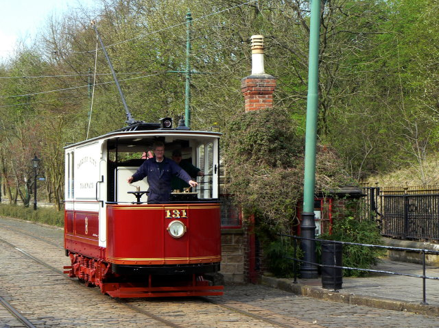 The latest member of the family Cardiff City Tramways water car 131 is the latest vehicle to be restored in the worksuops at Crich Tramway Museum. It is seen undergoing test running before being launched in May 2009 to mark the 50th Anniversary of the Museum. This car was the very first one to arrive on the site, in May 1959.